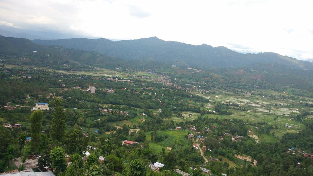 Capital of Panchkhal Municipality